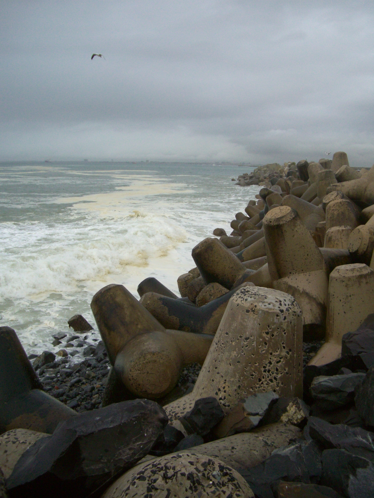 Photograph by Adam Brink, Cape Town